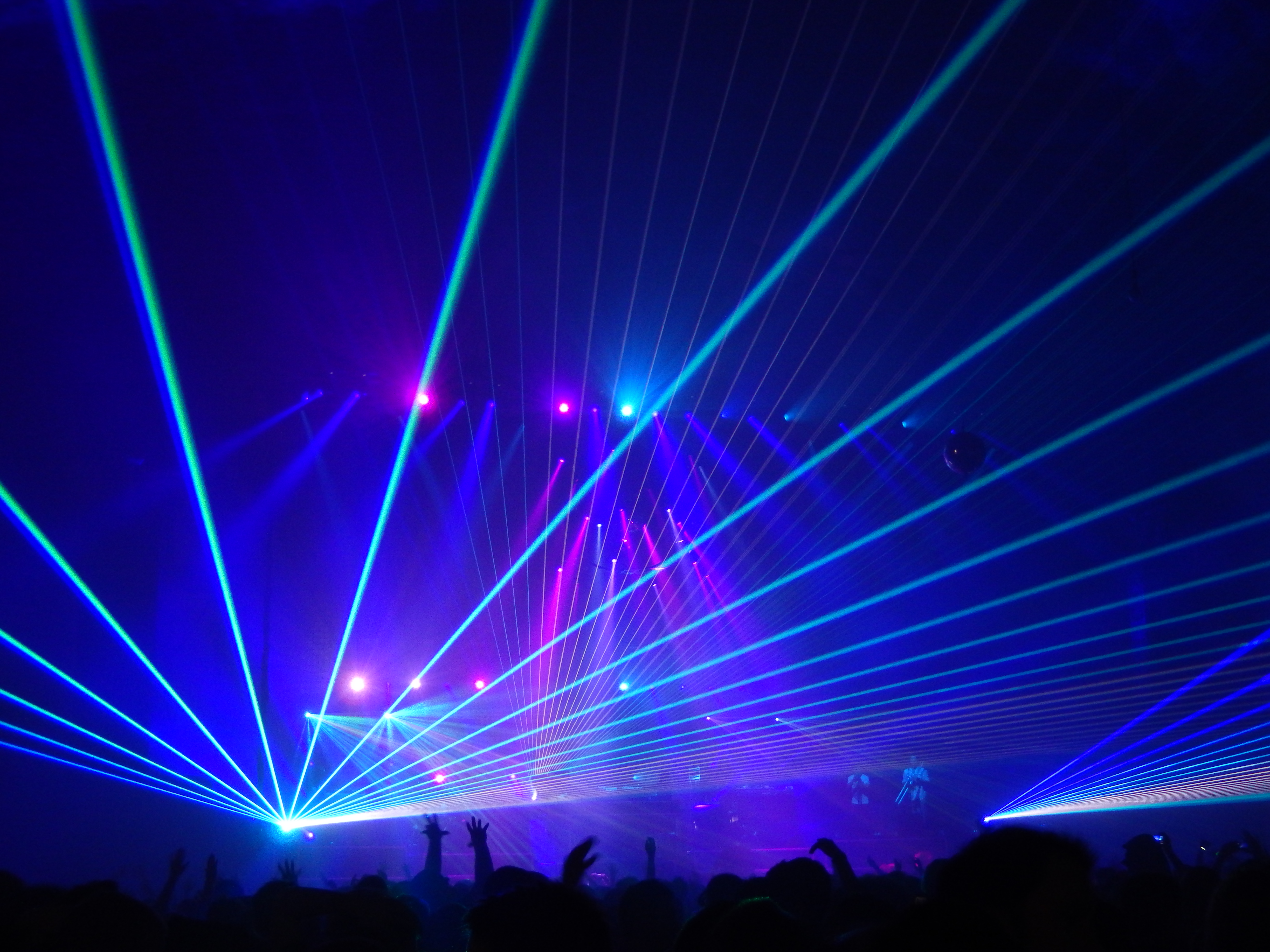 Pretty Lights in concert at the Aragon Ballroom at the November 8, 2013 concert. This photo was taken after midnight and so was actually taken on November 9.